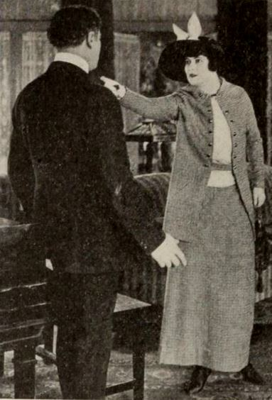 Still from the American film The Love That Dares (1919) with Madlaine Traverse, on page 46 of the May 10, 1919 Exhibitors Herald.